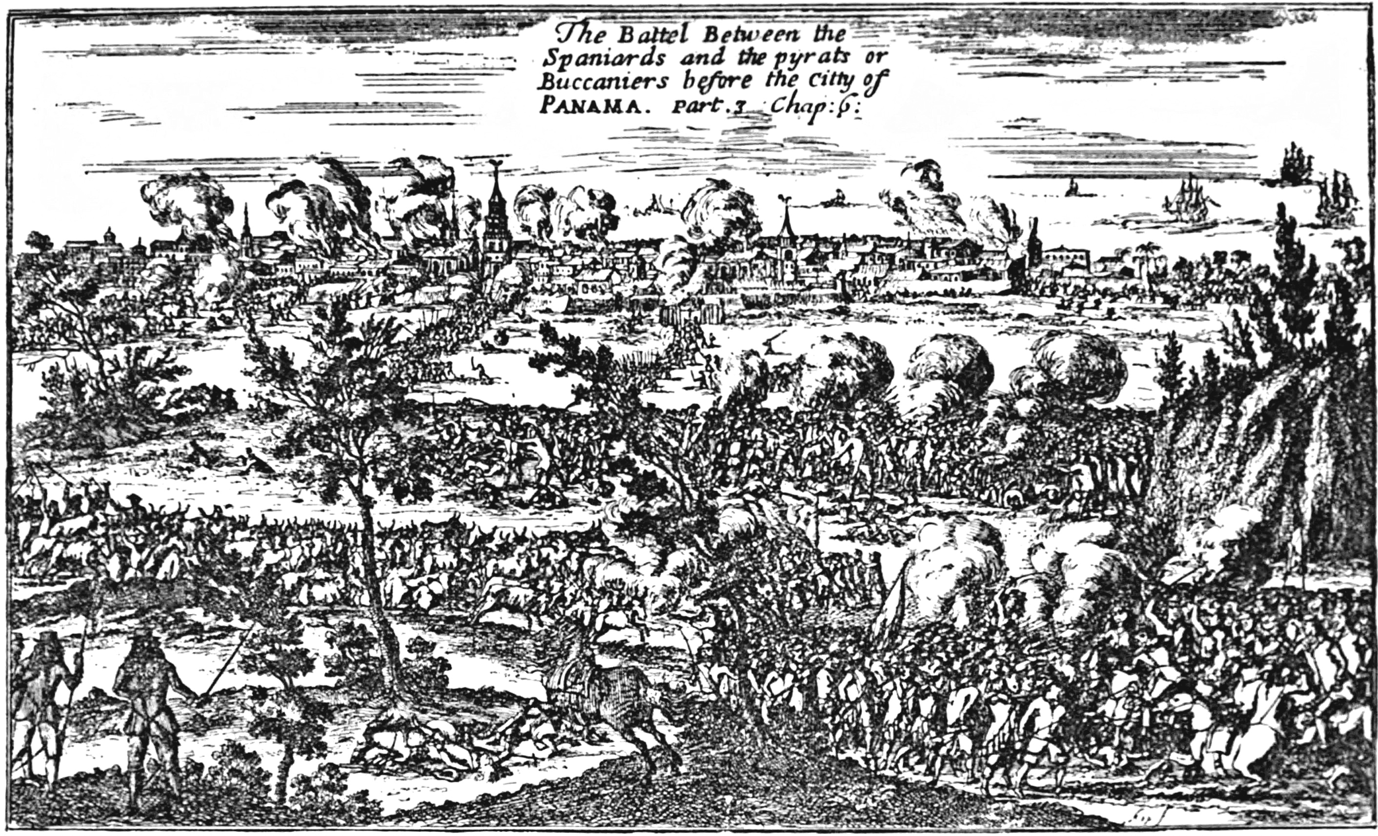 Captain Henry Morgan attacking Panama, 1671